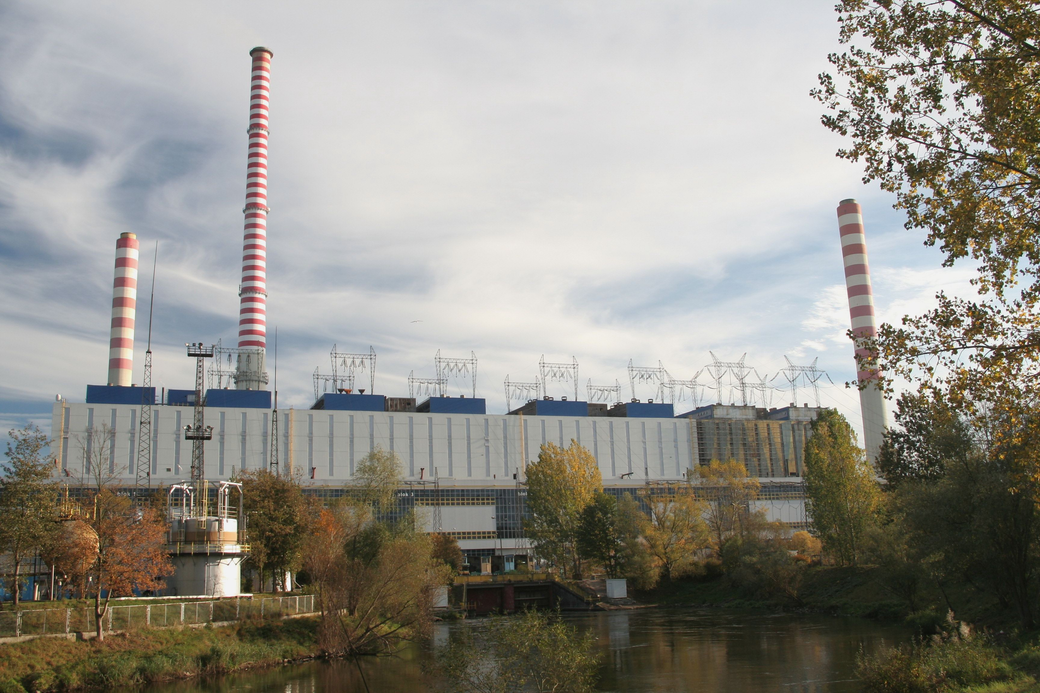 Dolna Odra Power Plant, Poland